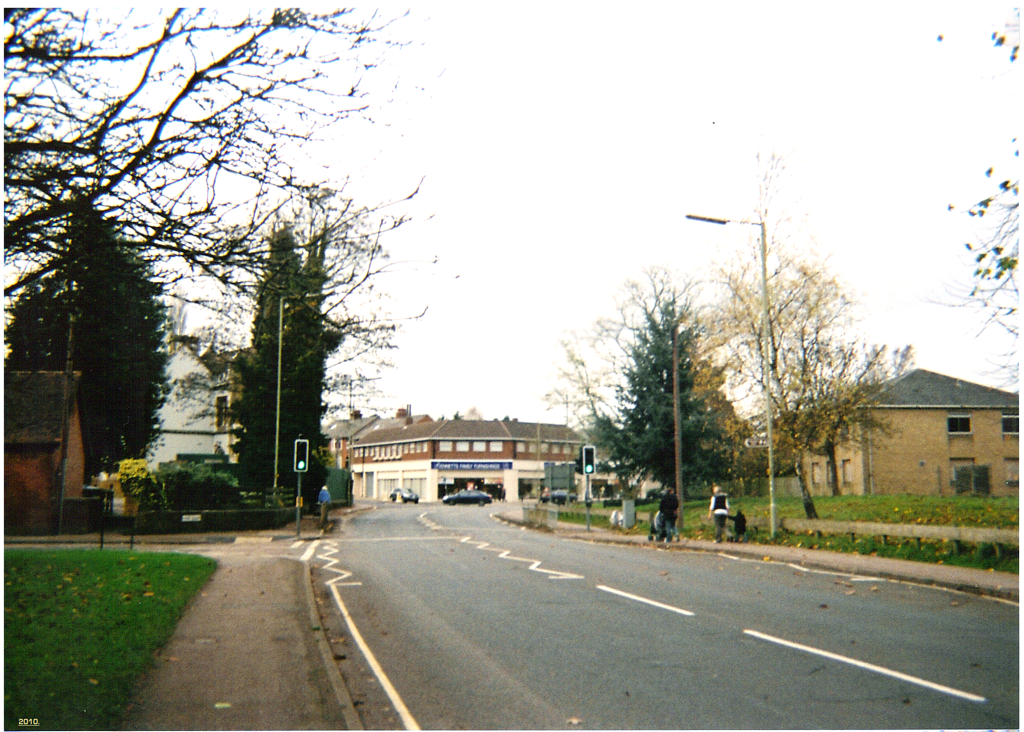 I took this picture of Banbury town my self. I here by release it in to the public domain.